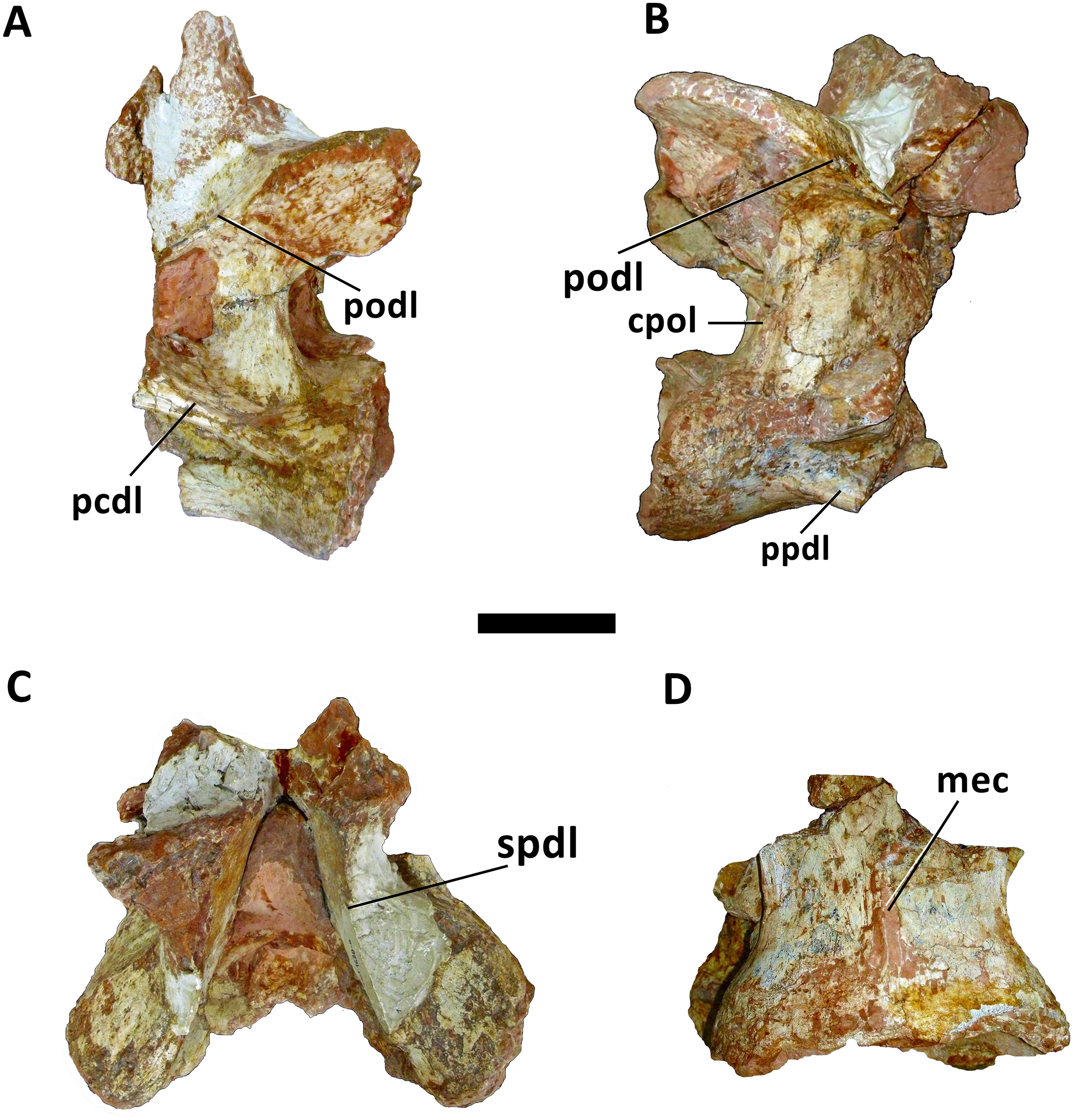 Cervical vertebra (Cv 13) of Austroposeidon magnificus gen. et sp. nov. (A) In left lateral, (B) right lateral, (C) dorsal and (D) ventral views. Abbreviations: cpol, centropostzygapophyseal lamina; mec, medial crest; pcdl, posterior centrodiapophyseal; podl, postzygodiapophyseal lamina; ppdl, paradiapophyseal lamina; spol, spinopostzygapophyseal lamina. Scale bar: 100mm.